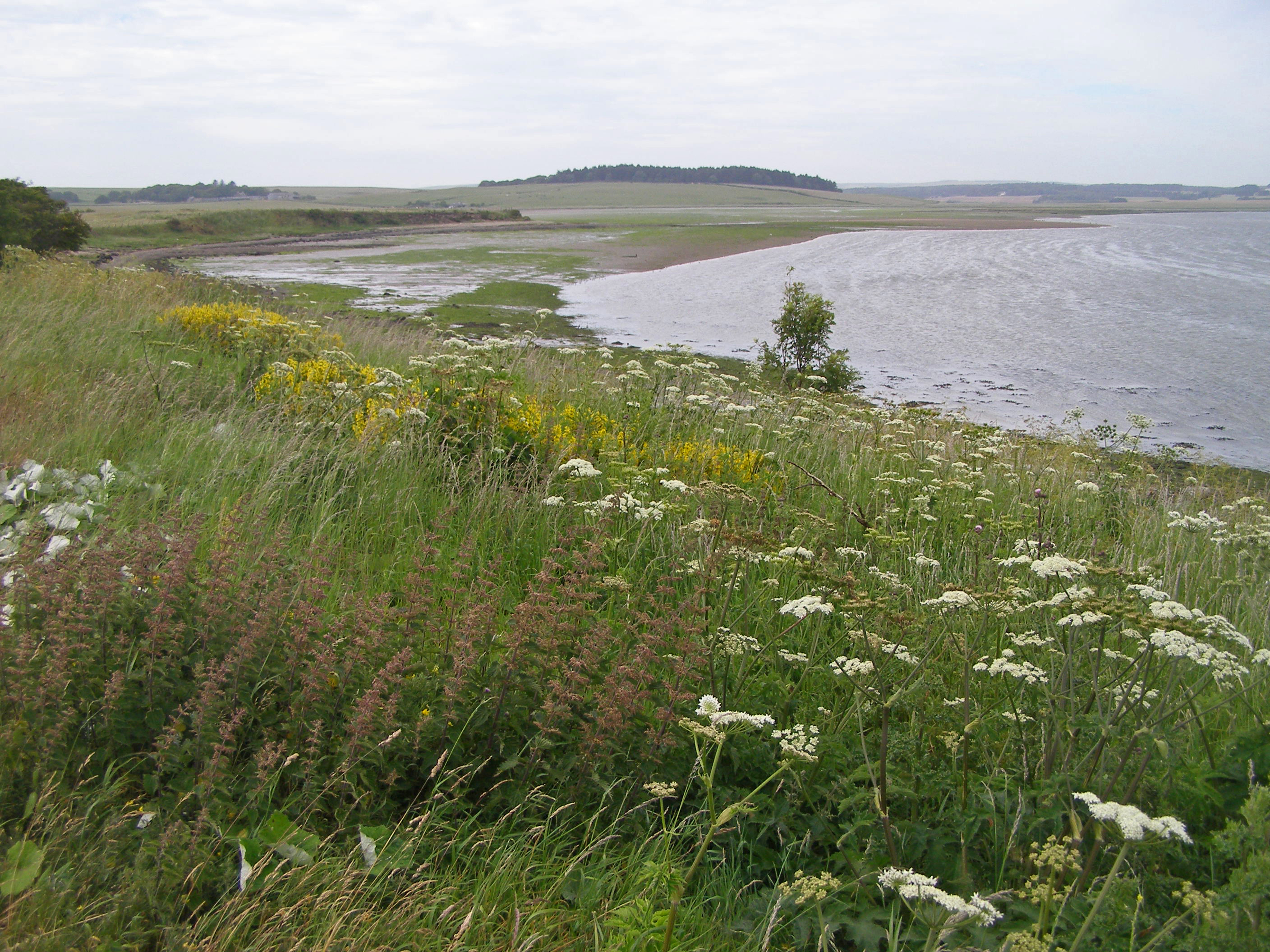 Mid to upper reach of Ythan Estuary looking west, Aberdeenshire.